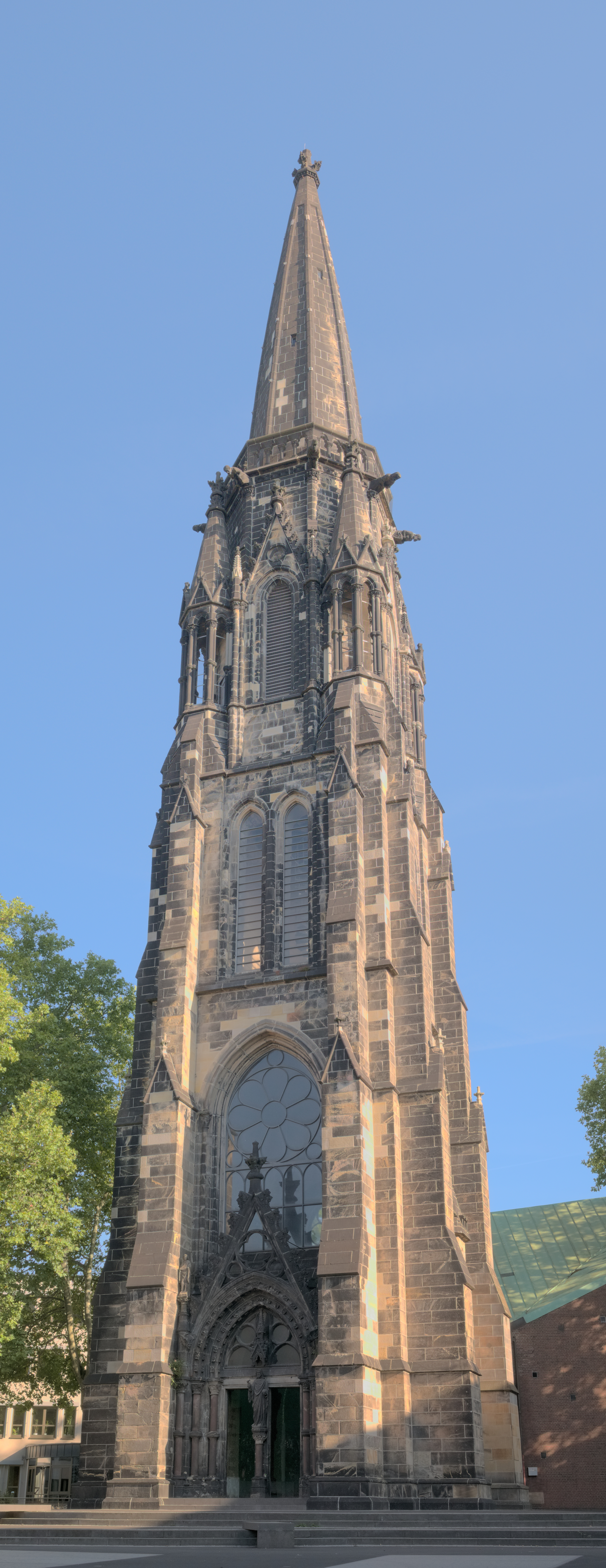 The tower of the Christuskirche in Bochum, stitched from a series of pictures.